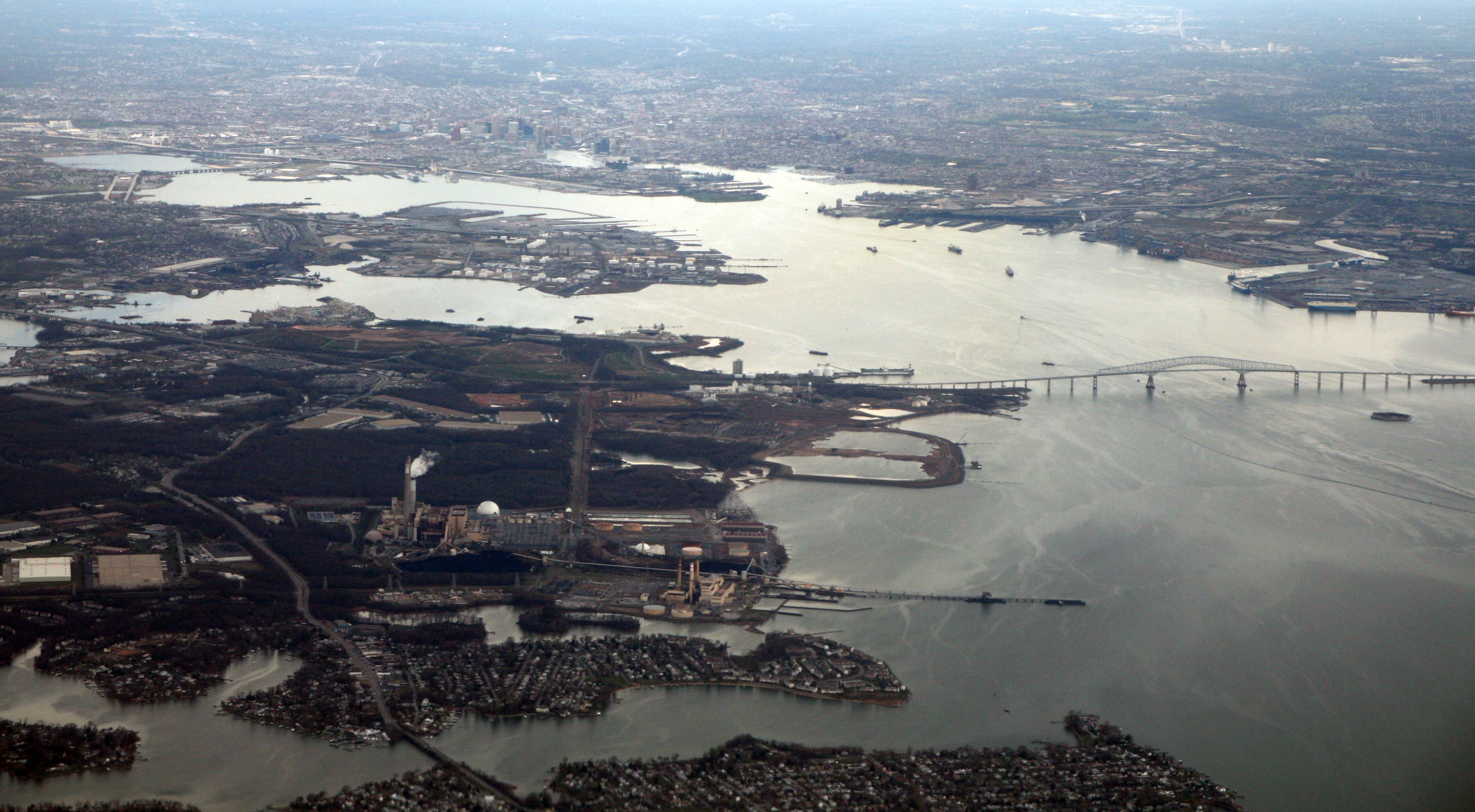 The Herbert A. Wagner Generating Station (center right, on water, and adjacent (left) Brandon Shores Generating Station, both coal-fired power plants, beside the entrance to Baltimore Harbor, and near the Francis Scott Key Bridge, also known as the Key Bridge, or the "Car Strangled Spanner," thanks to its often congested traffic.